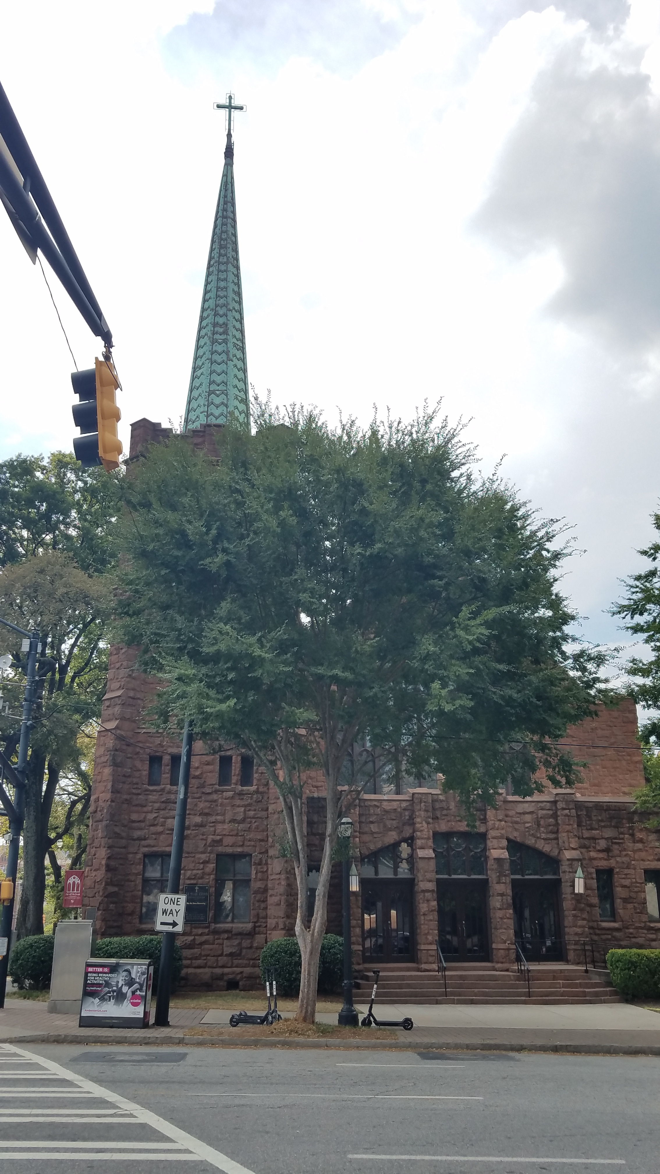 Steeple and main entrance to the All Saints' Episcopal Church in midtown Atlanta, Georgia.